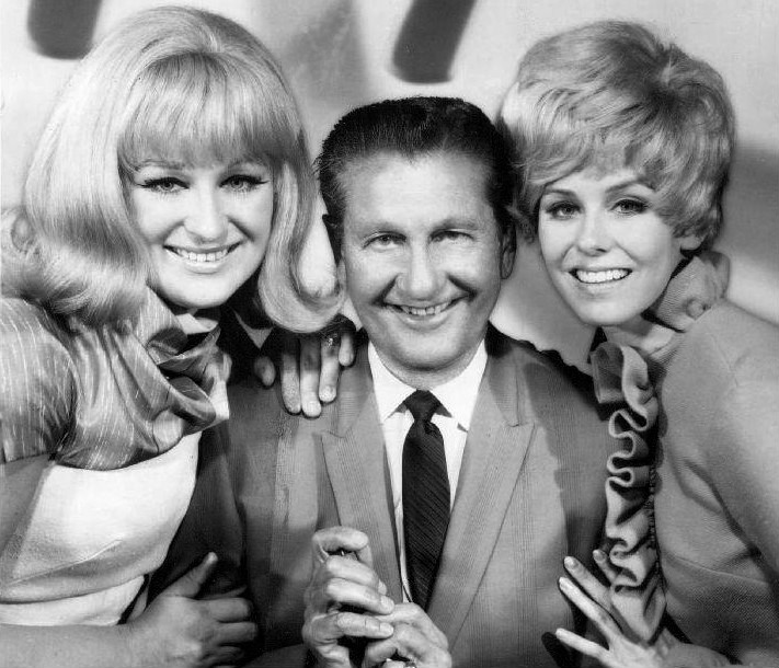 Photo of pianist Jo Ann Castle, bandleader Lawrence Welk and Cissy King from the television program The Lawrence Welk Show.